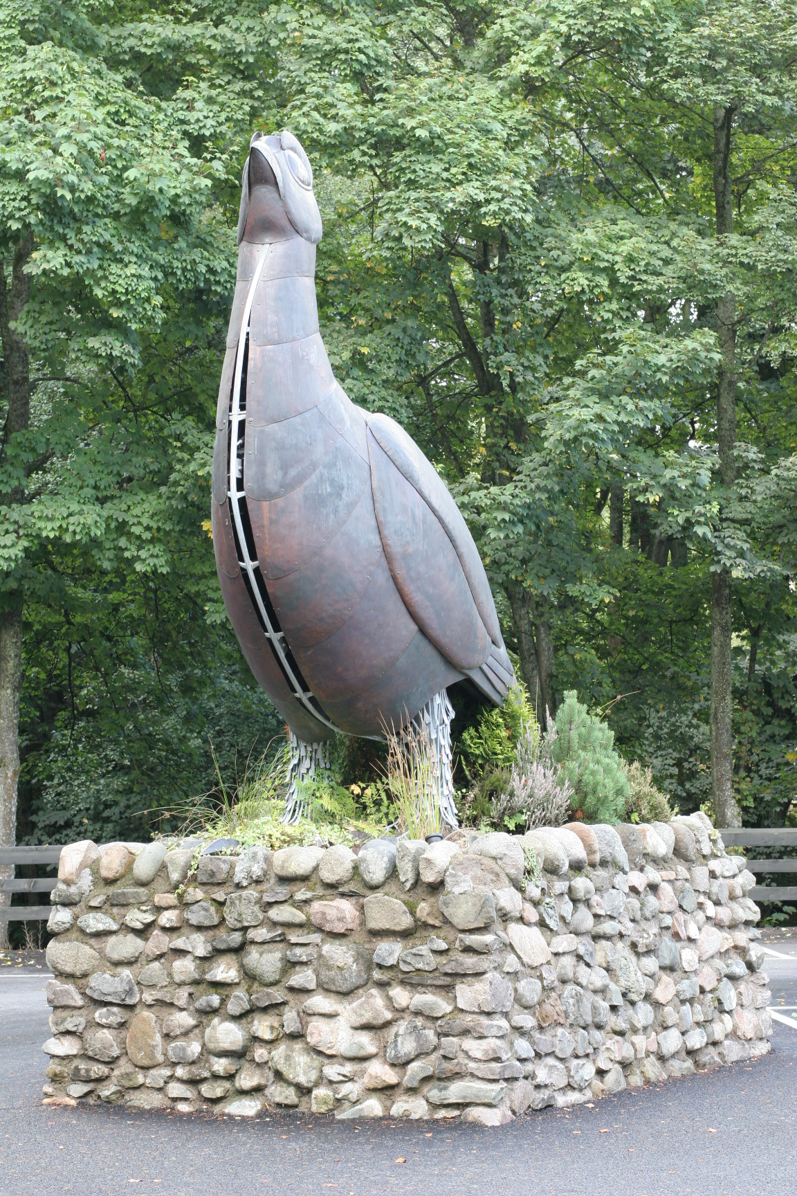 Glenturret Distillery - Grouse Statue